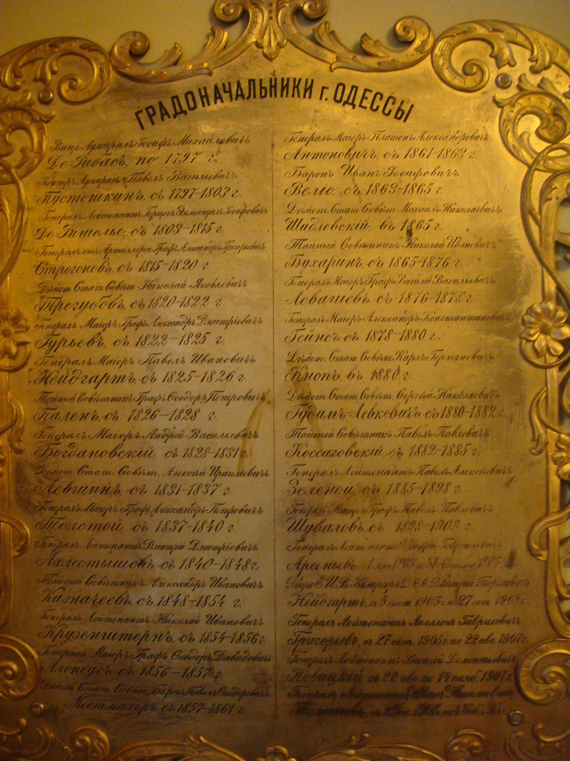 Copper plate with name of all Odessa city mayors, presently exibited at Museum of Odesssa City at Gavannaya Street